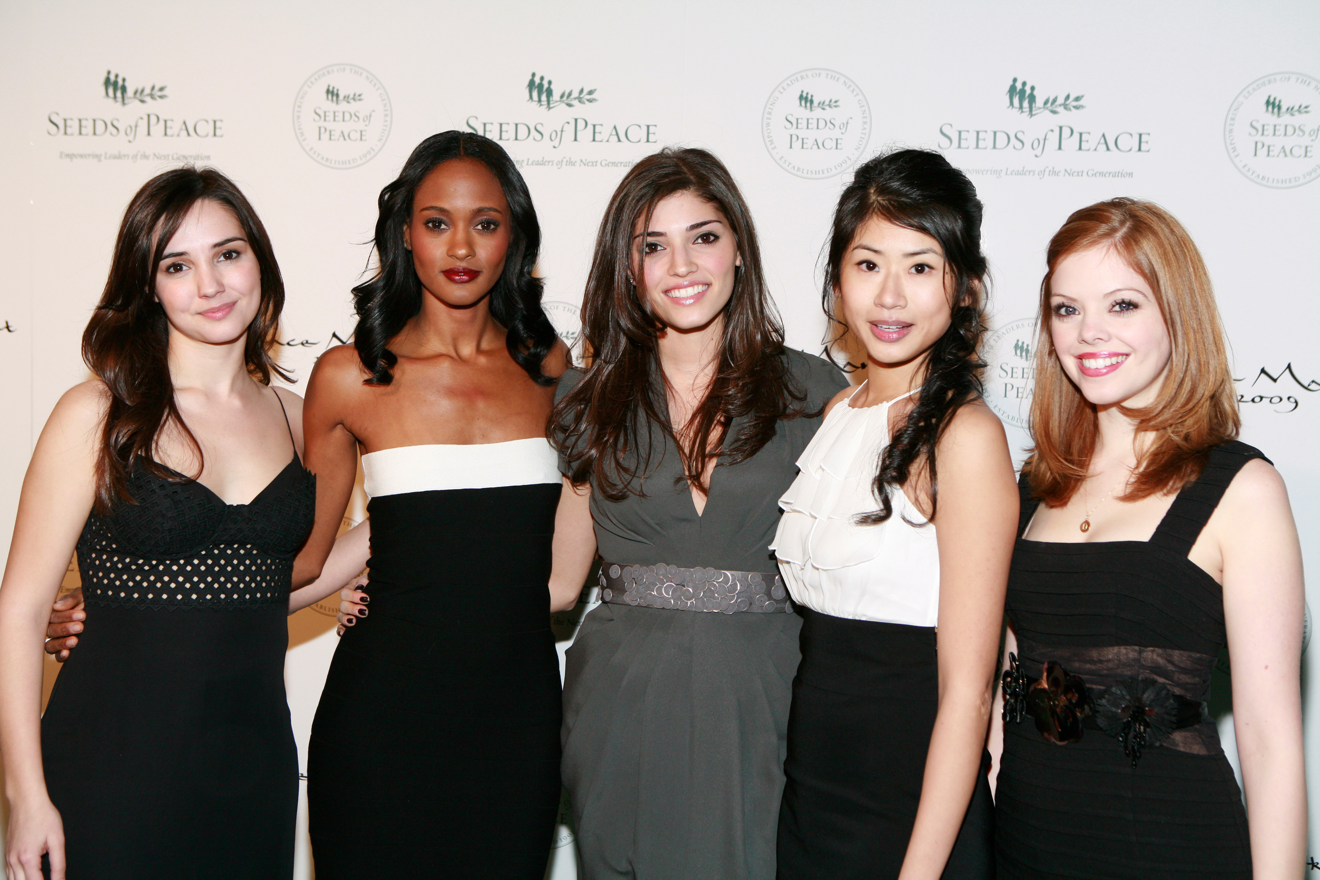 From left to right: Laura Breckenridge, Nicole Fiscella, Amanda Setton, Yin Chang and Dreama Walker. Seeds of Peace 2009 (19 February)